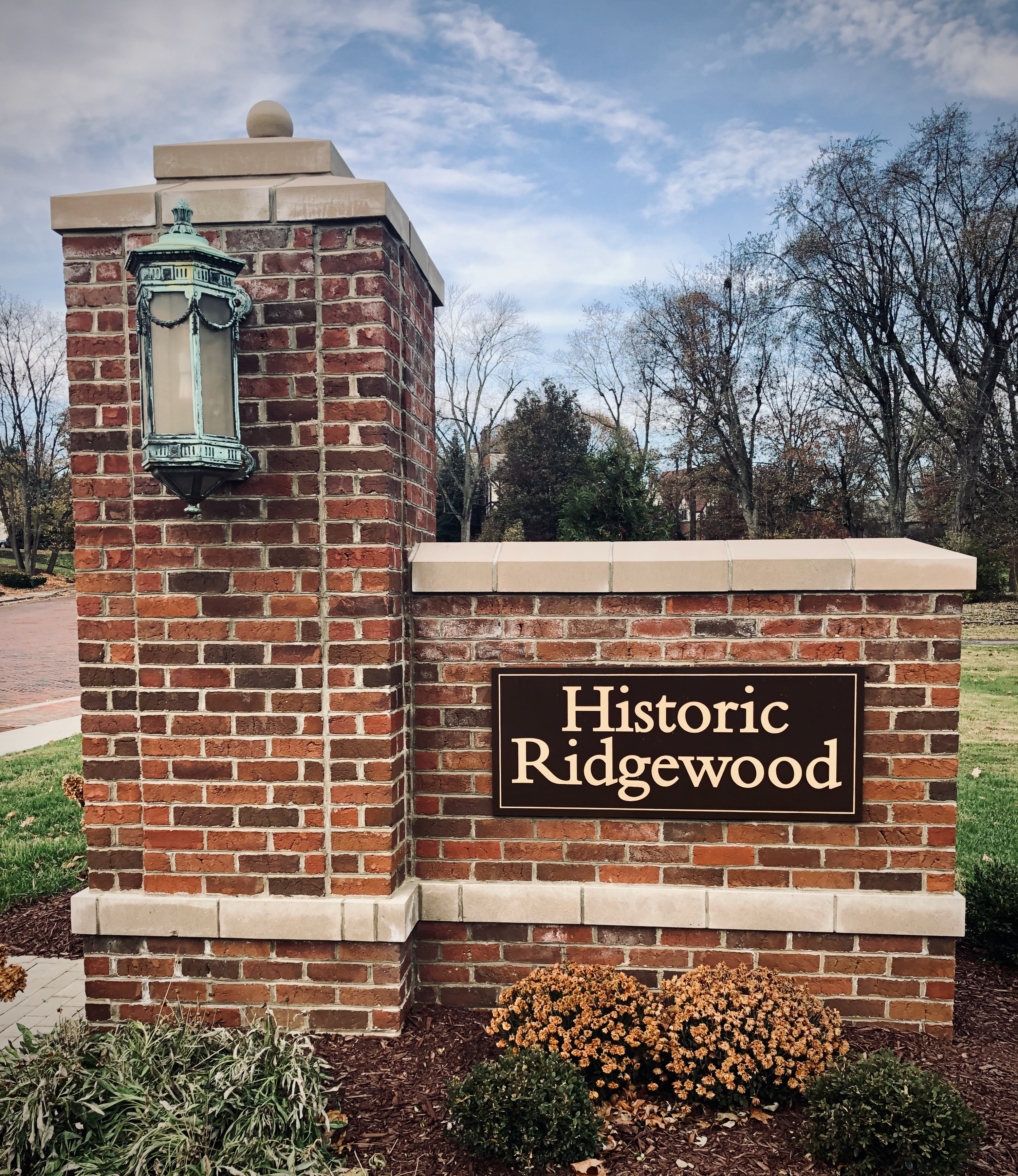 Entrance of Ridgewood Historic District in Canton, Ohio